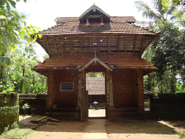 Varikkasseri Gopuram